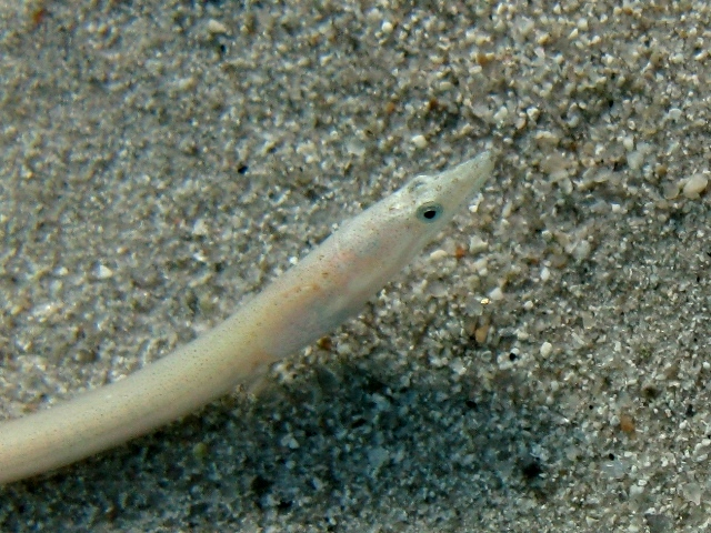 Juvenile Ophisurus serpens photographed in Corse.